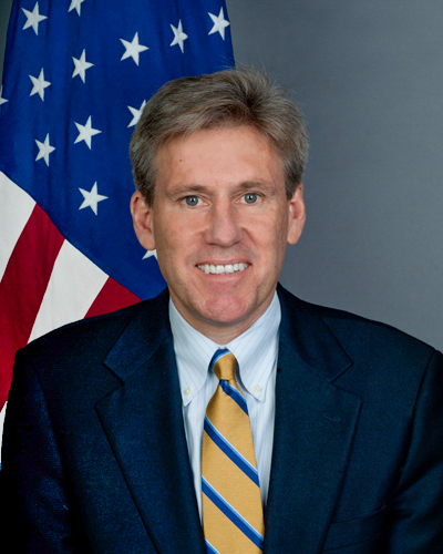 J. Christopher Stevens — United States ambassador to Libya from June 7, 2012 until killed in an attack on the US consulate in Benghazi, on September 12, 2012.